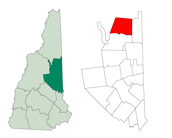 Created from Boundary/Border Outline Files of the Libre Map Project which held a BY-SA creative commons license. Data origionally from 2000 US Census boundary data.